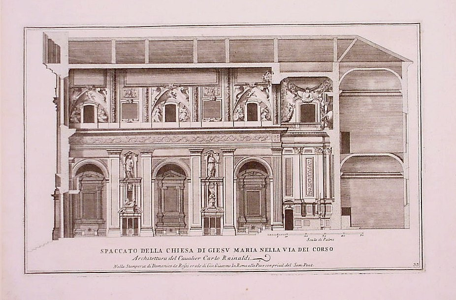 Gesù e Maria (Rome), by Domenico de Rossi, Studio d'architettura civile . . . di Roma . . . Three volumes. Rome: 1702-21